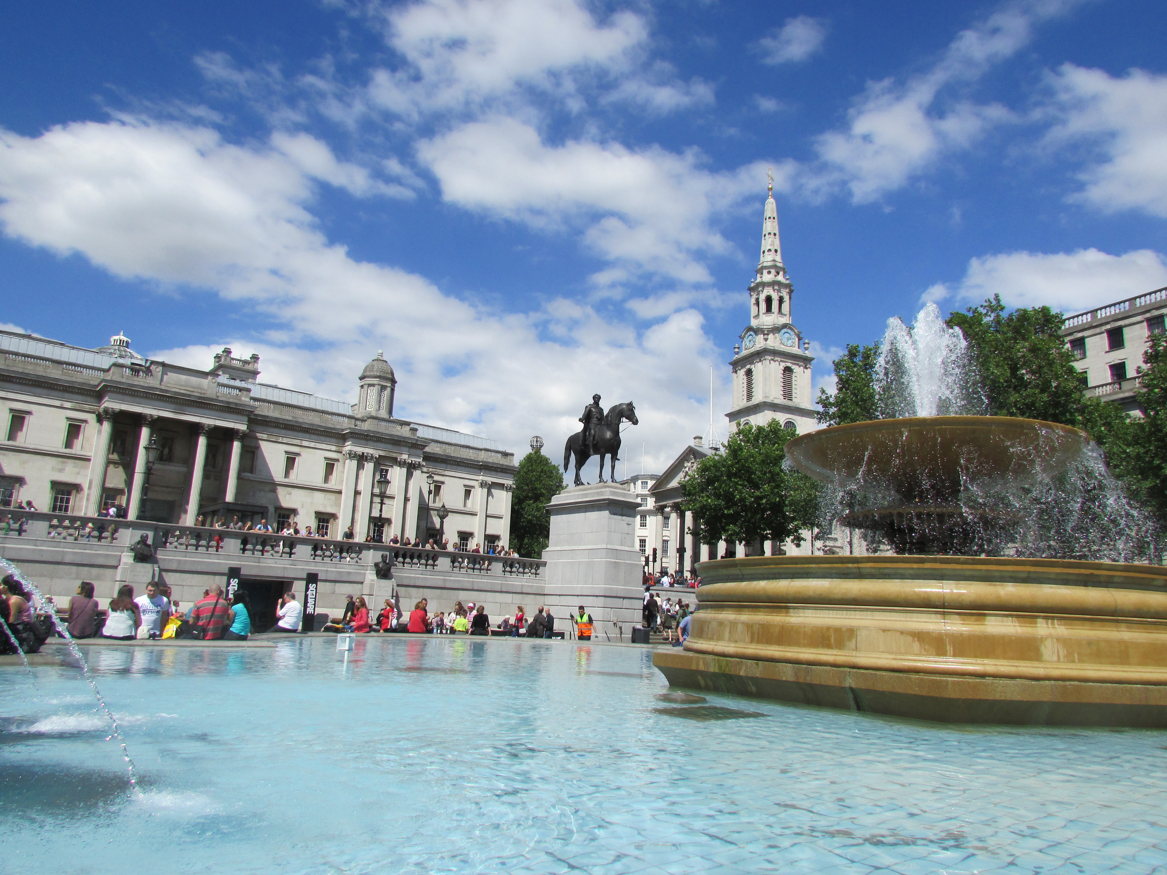 A picture of the fountain at Trafalgar Square, depicted on June 7 2014.